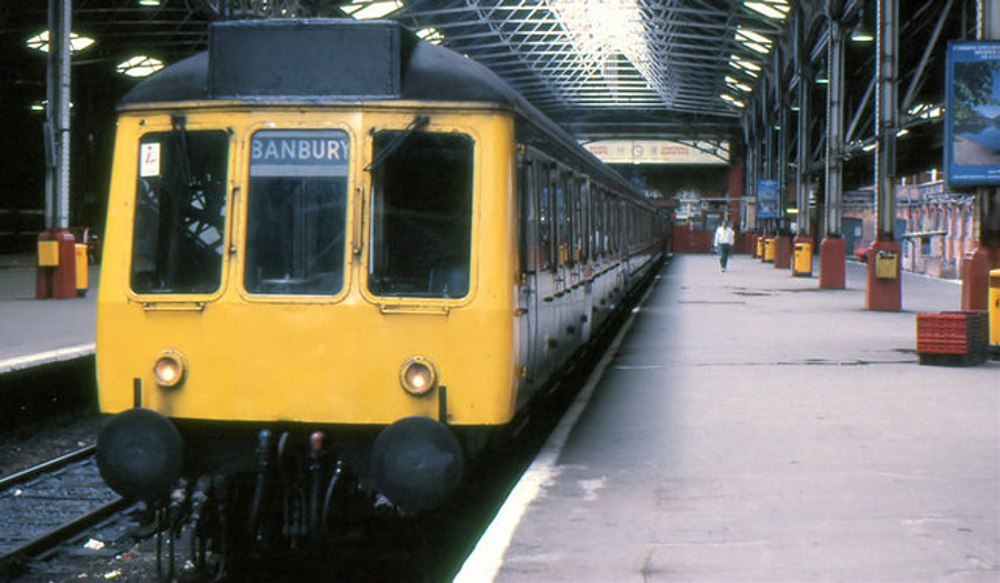 A three-car dmu, forming the 11.38 to Banbury, awaiting departure from Marylebone.